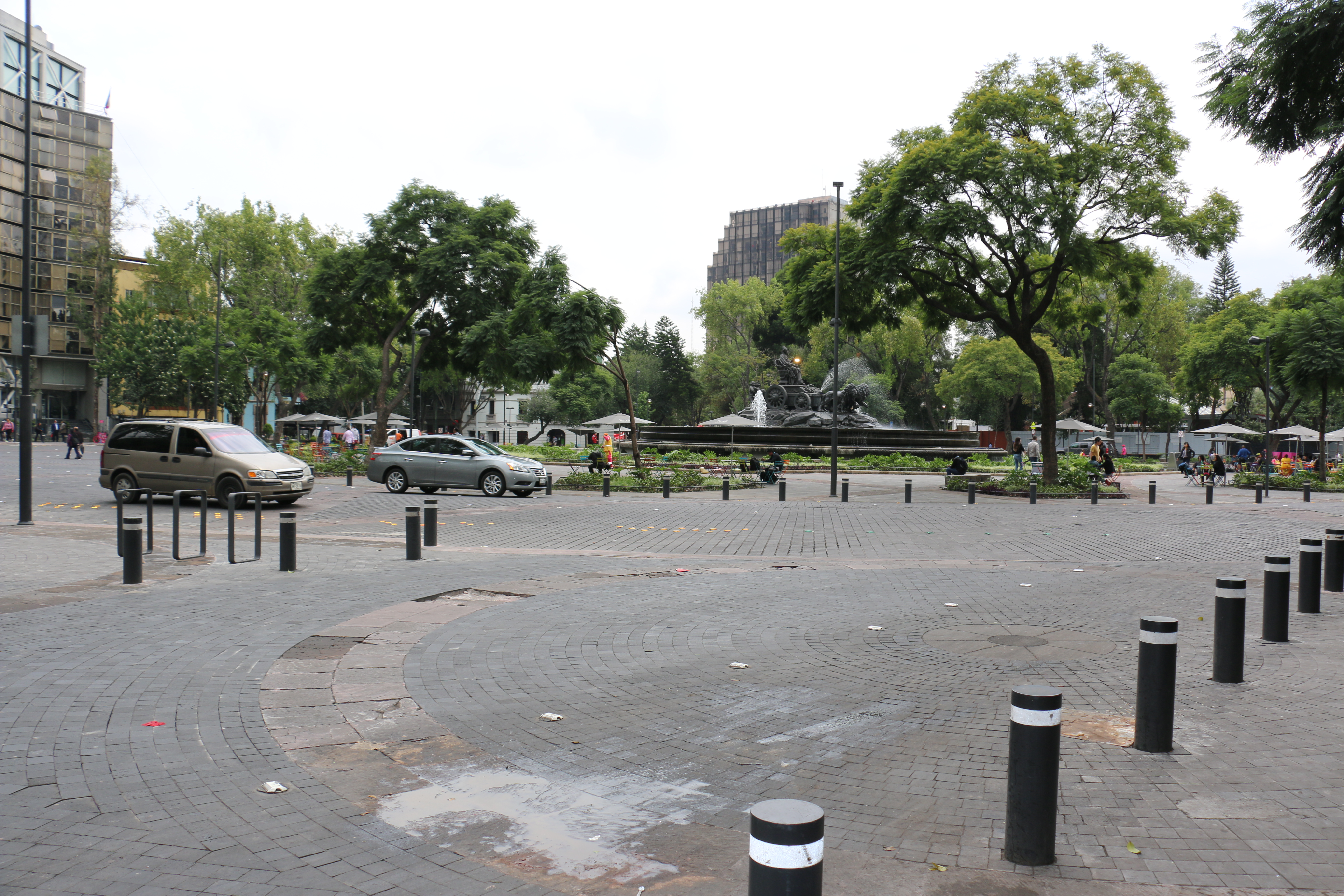 Vista general de la glorieta de la Fuente de Cibeles en México.Ubicada en Cuauhtémoc, Roma Norte, Ciudad de México.